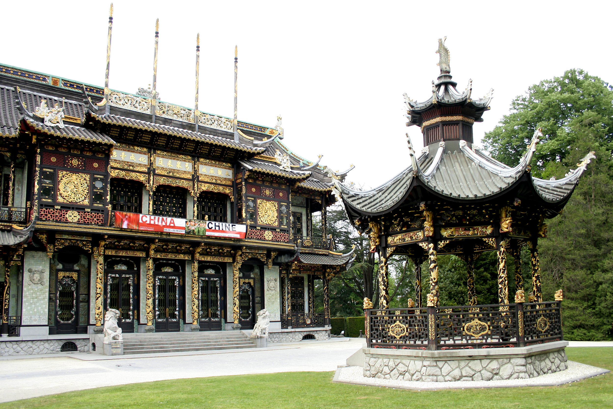 Laeken (Belgium), the chinese pavilion and kiosk (early XIXth century - Alexandre Marcel). Walon: Laeken (Bèljike), li chalèt èt l'kioske chinwès (dèbut do XIXin.me sièke - Alexandre Marcel).